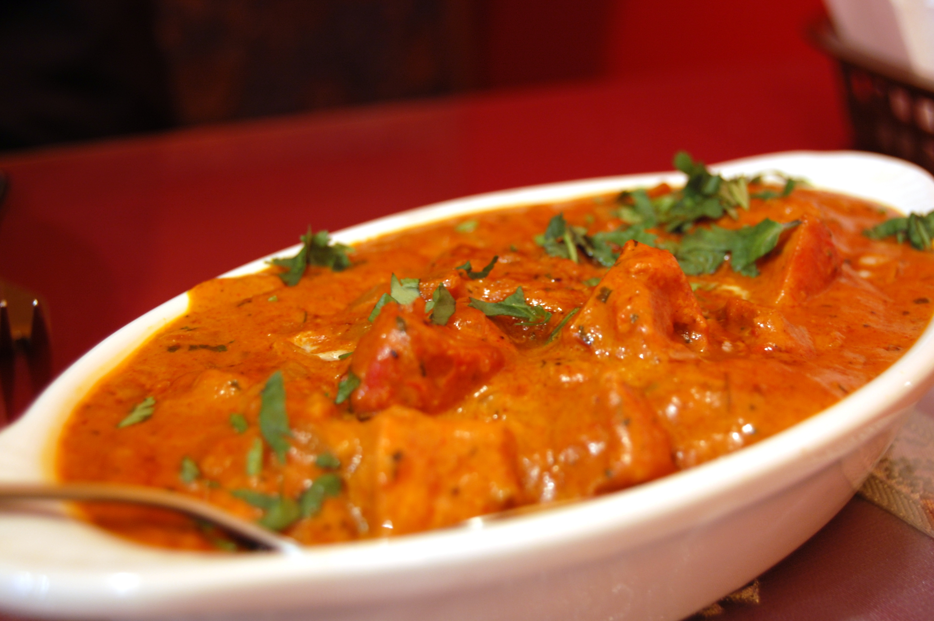 Chicken Makhani, murgh makhani, or "Butter Chicken"chicken makhani